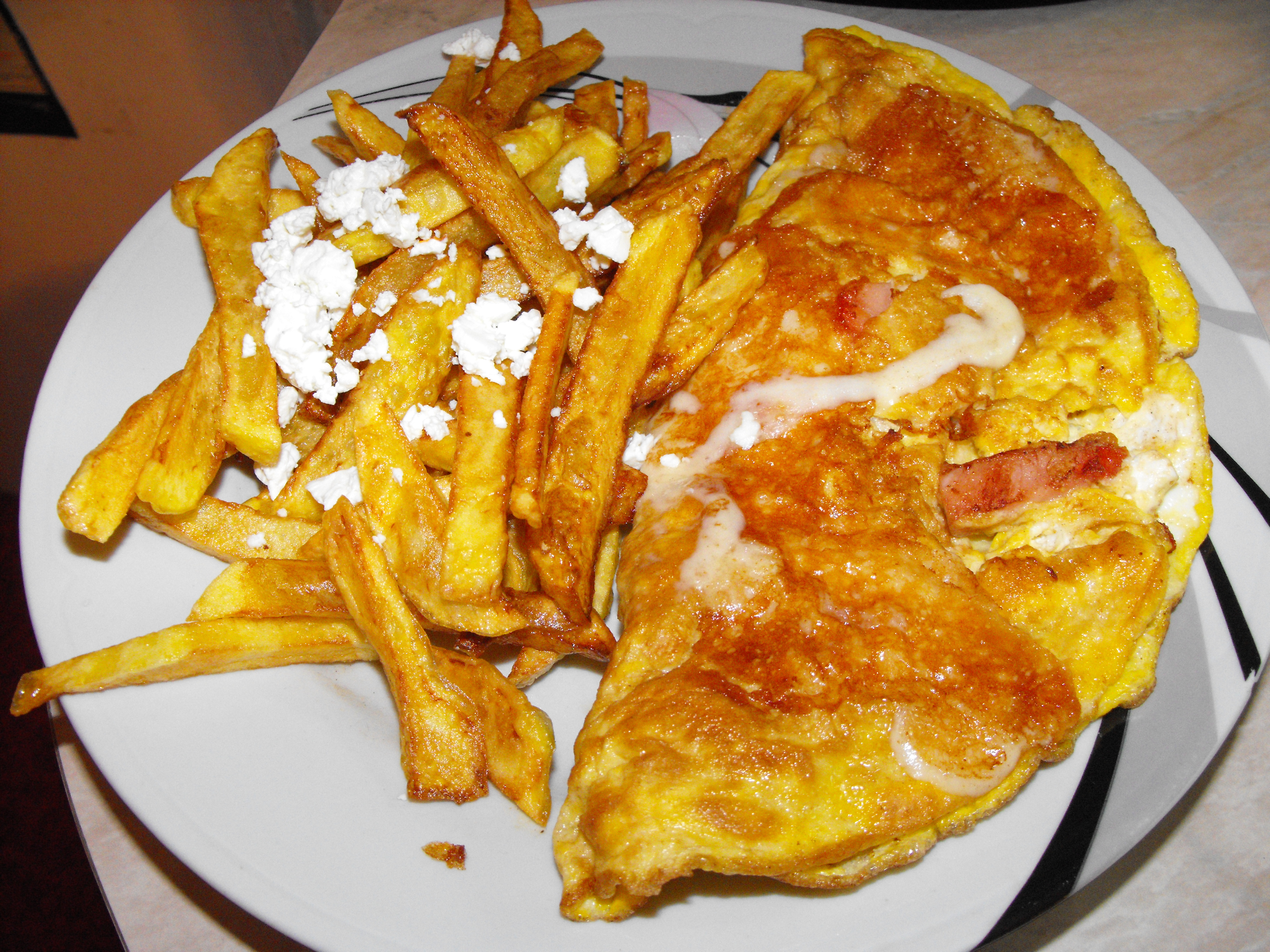 Omlette (eggs, white cheese, yellow cheese, pork) and chips